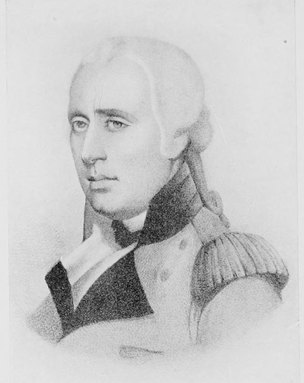 Robert Kyd (1746–27 May 1793)